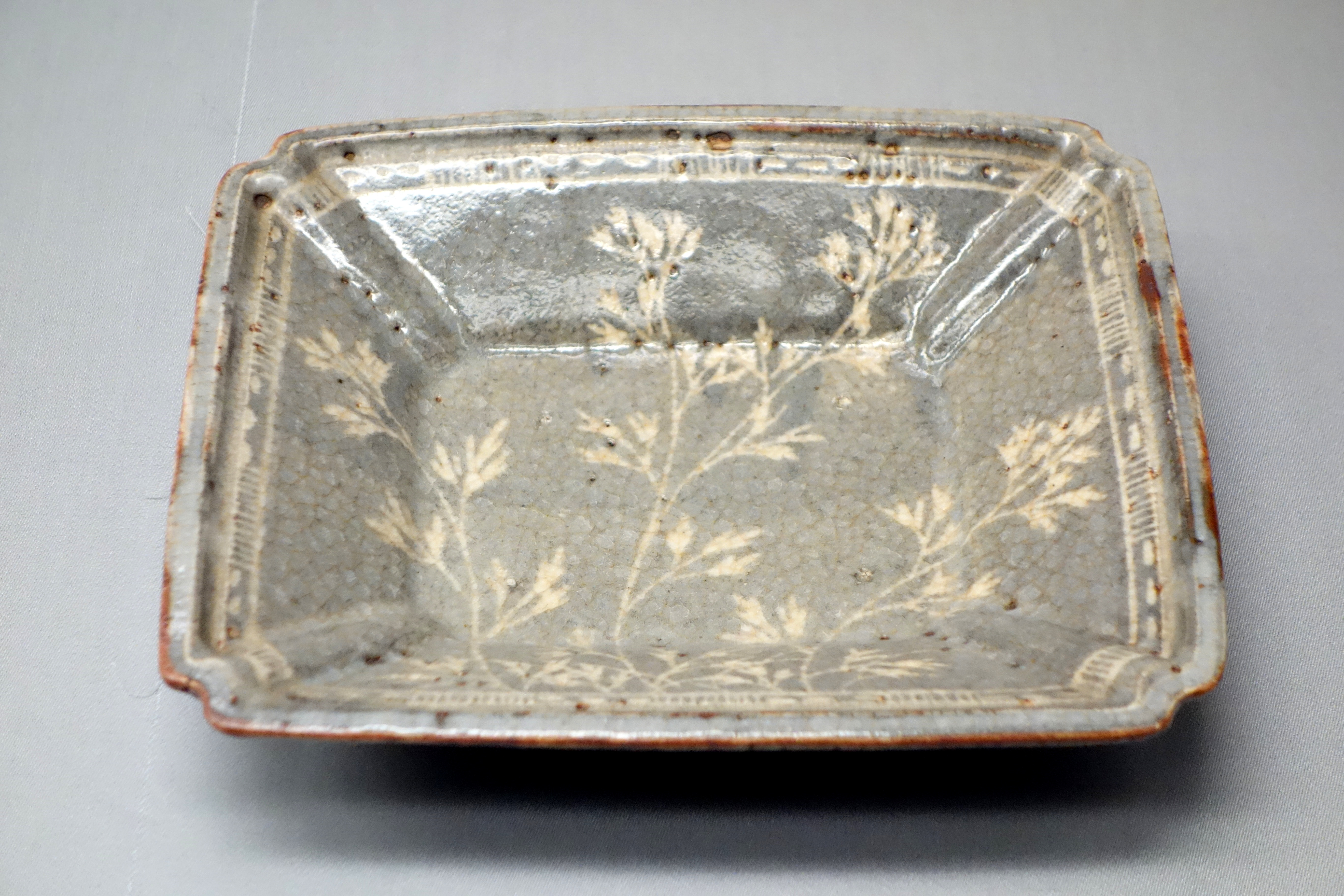 Exhibit in the Tokyo National Museum, Tokyo, Japan. This artwork is old enough so that it is in the public domain.